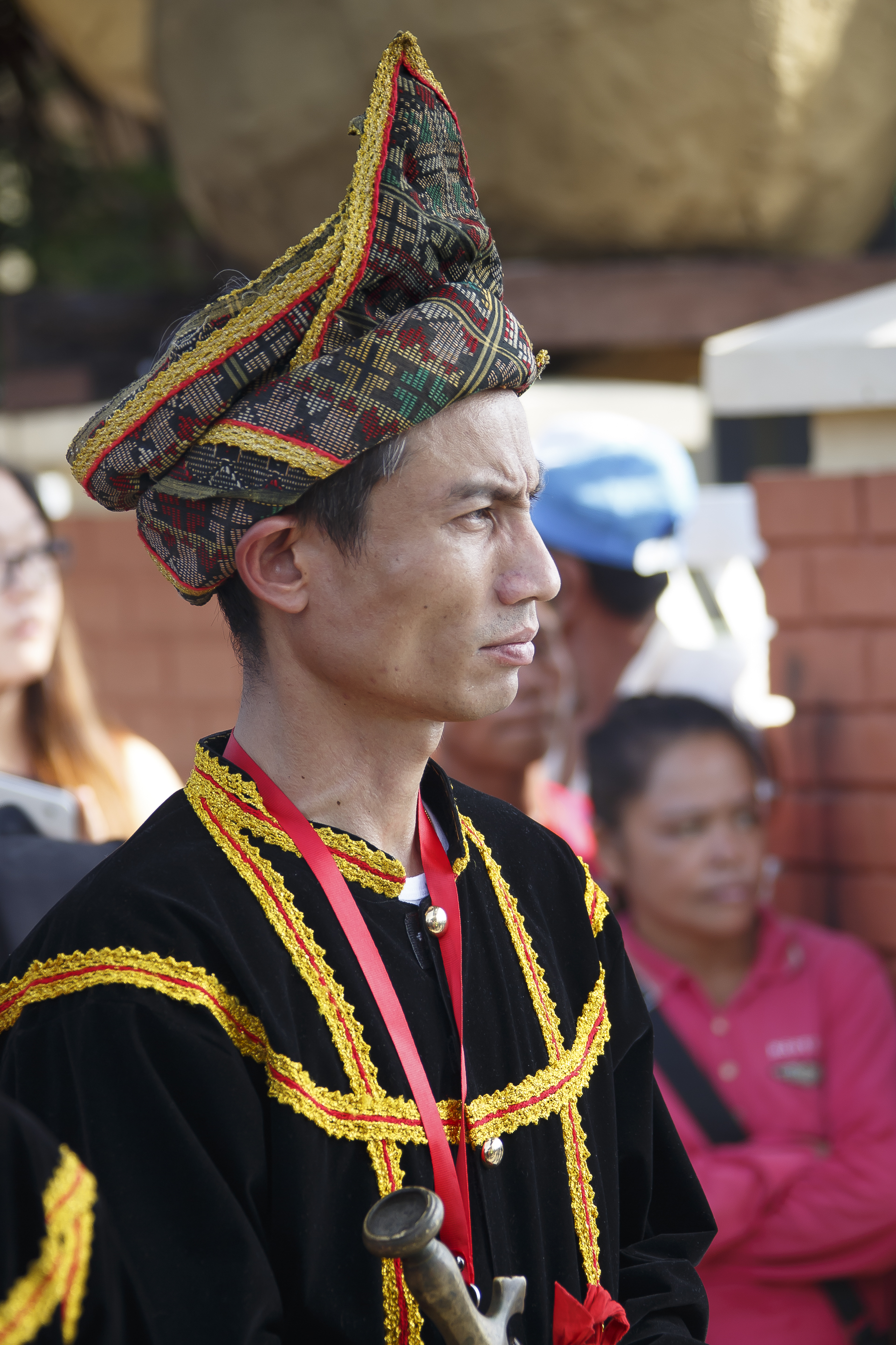 Penampang, Sabah: a bobohizan, traditional Dusun priest, during the opening ceremony of Kaamatan 2014 at Hongkod Koisaan, the unity hall of KDCA